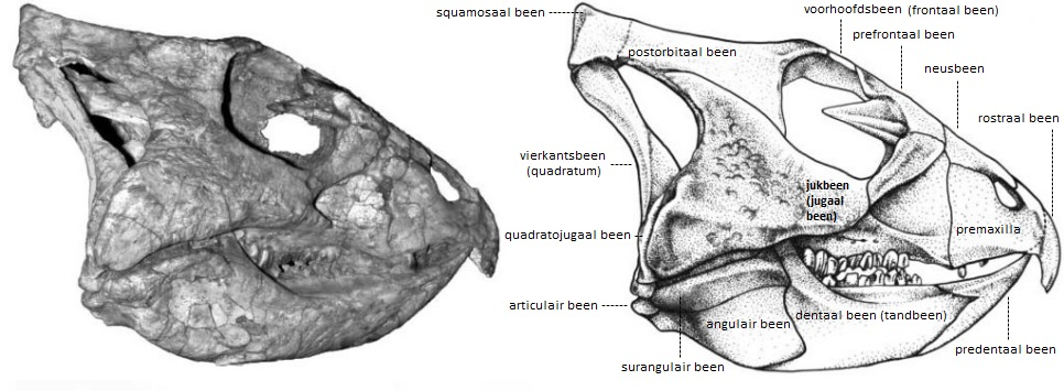 Archaeoceratops oshimai, IVPP V 11114, holotype skull in right lateral view.